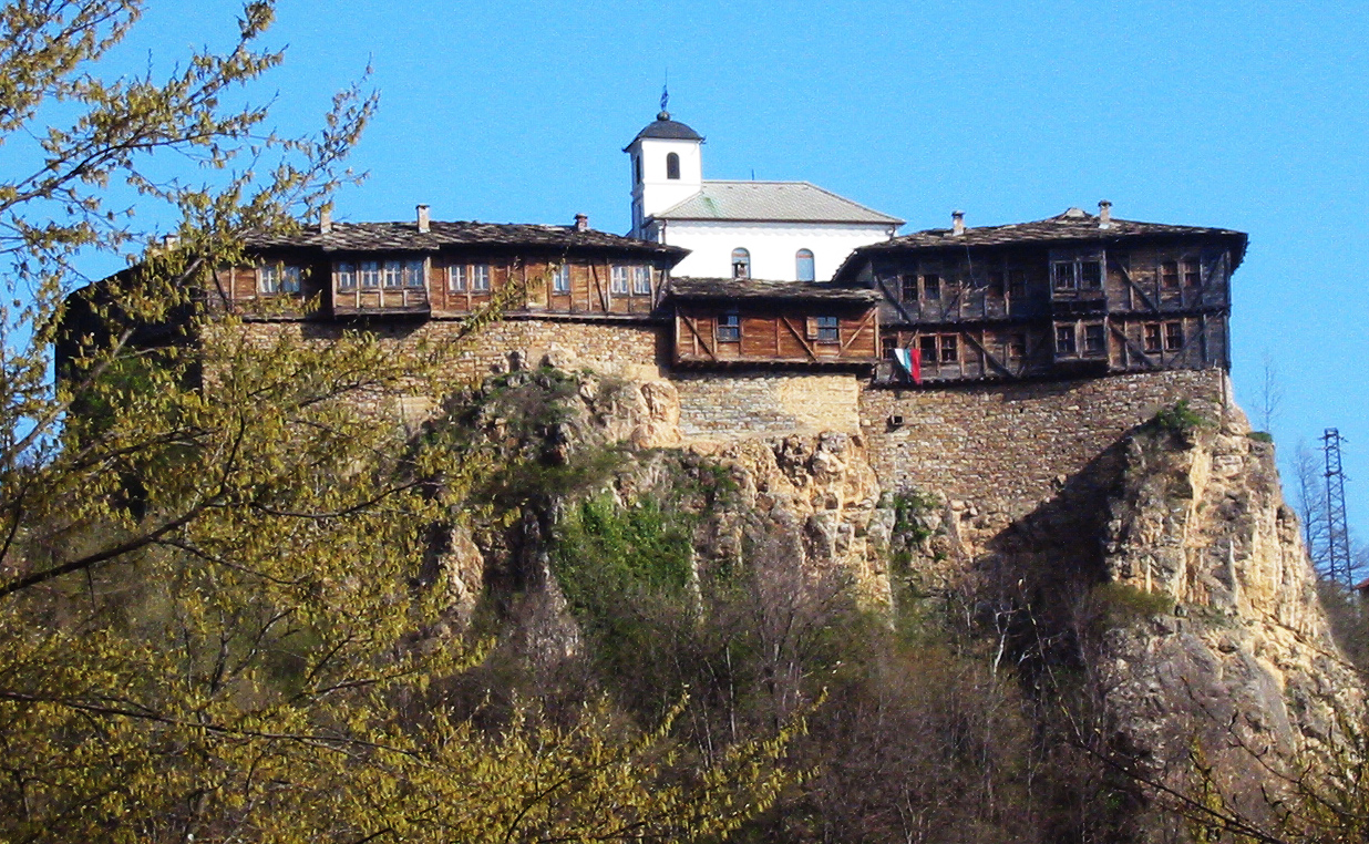 Glojen Monastery, Bulgaria